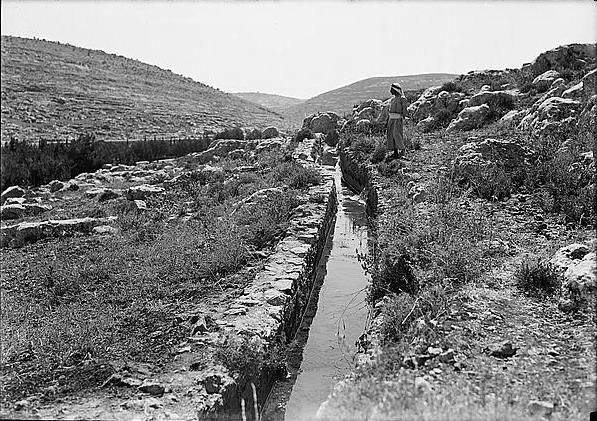 Wadi el-Biyar aqueduct to upper Solomon's Pools. Palestine circa 1934-1939.